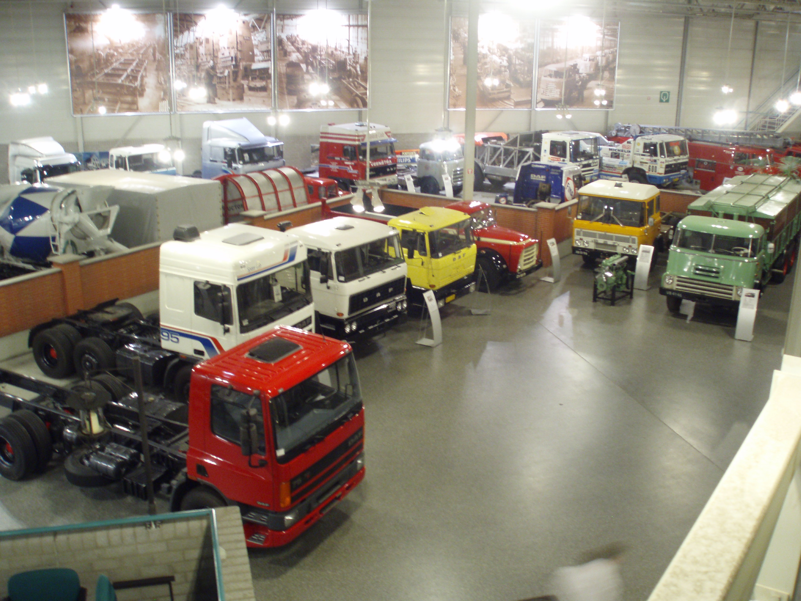 DAF Trucks from different generations, at the DAF museum, The Netherlands